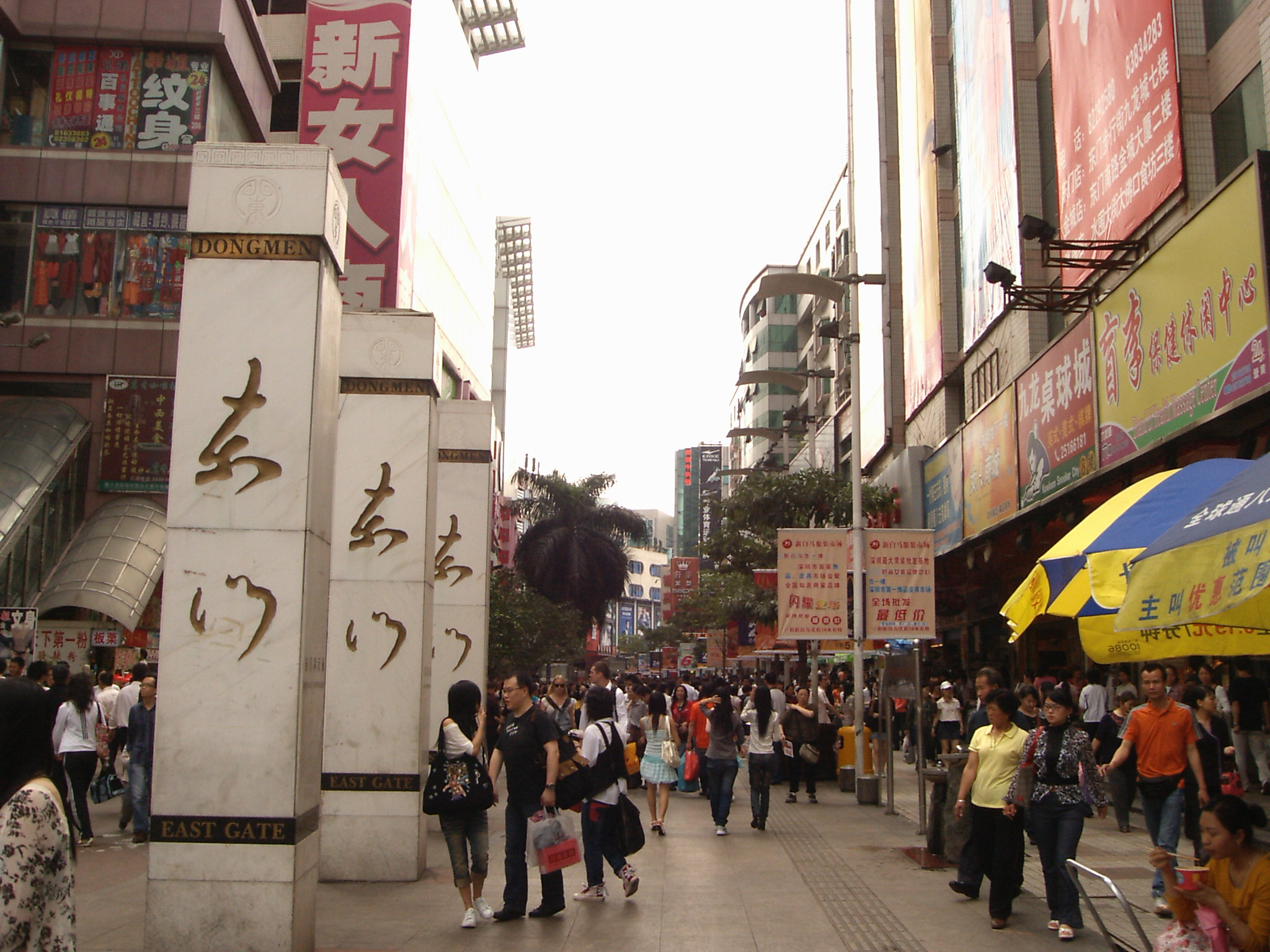 East Gate in Shenzen, China